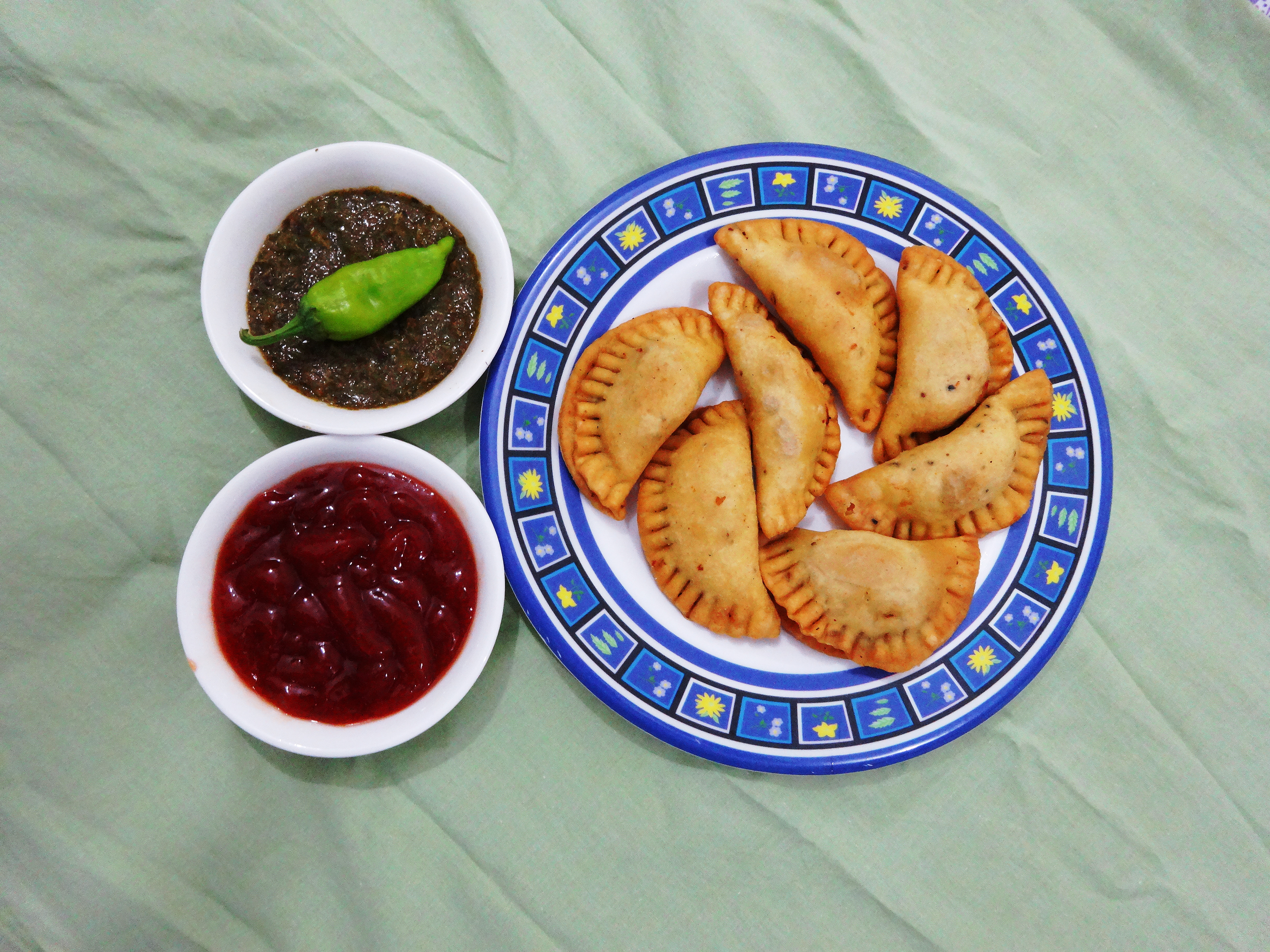 سمبوسك